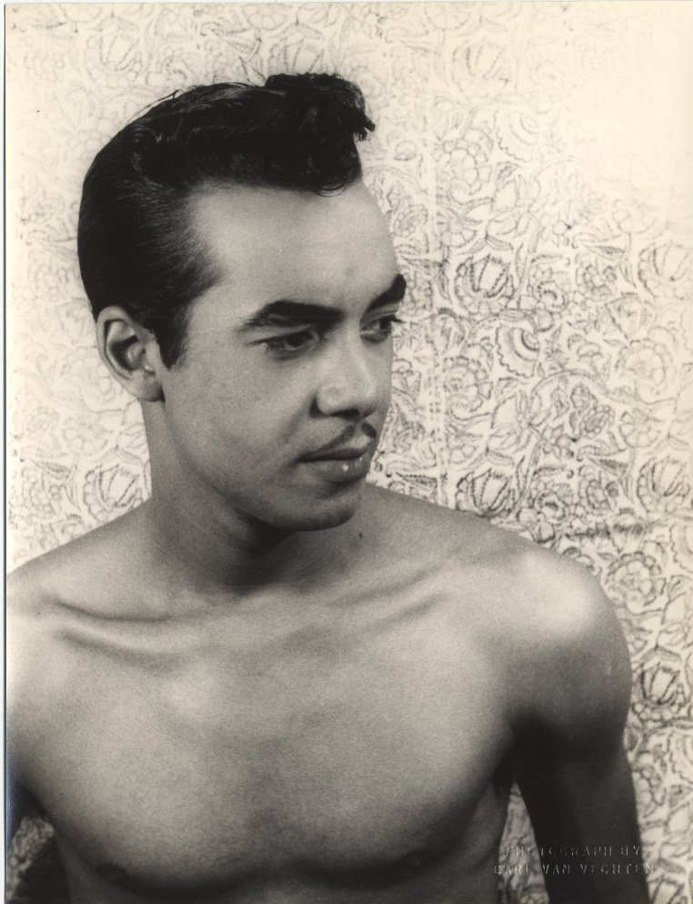 Shirtless man (1947)